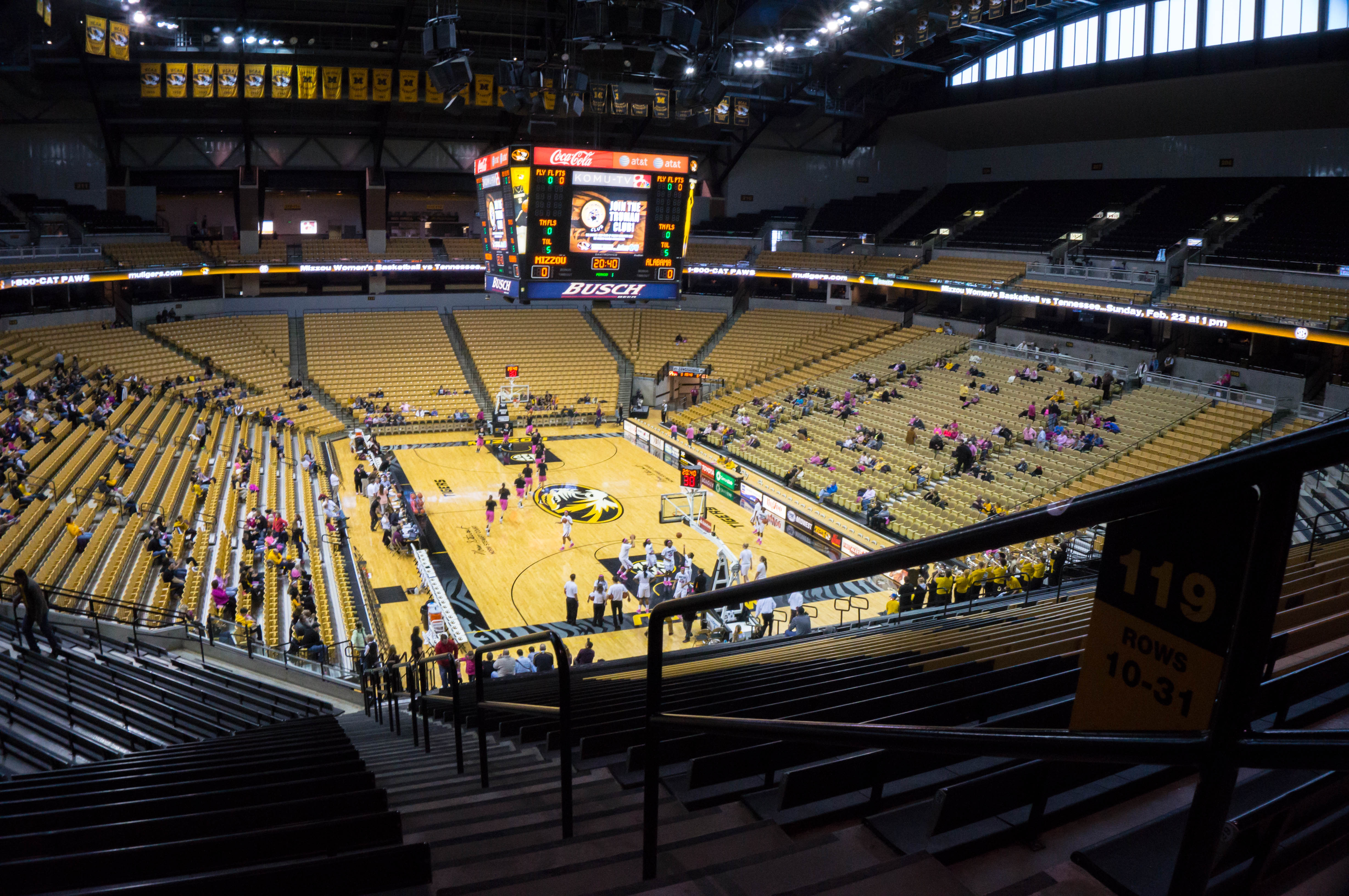 Interior of Mizzou Arena before a women's basketball game vs. Alabama